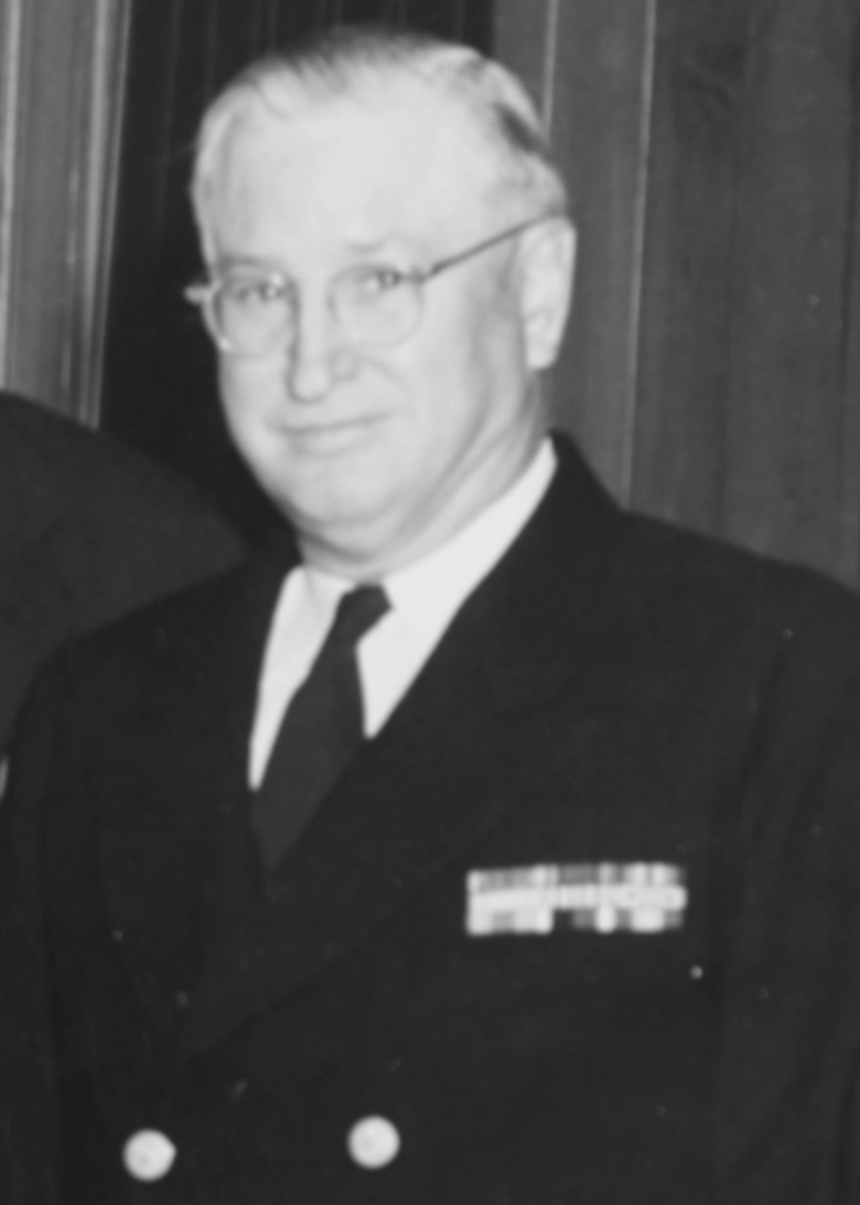 Rear Admiral John R. Redman, USN, at the Naval Postgraduate School Monterey, California